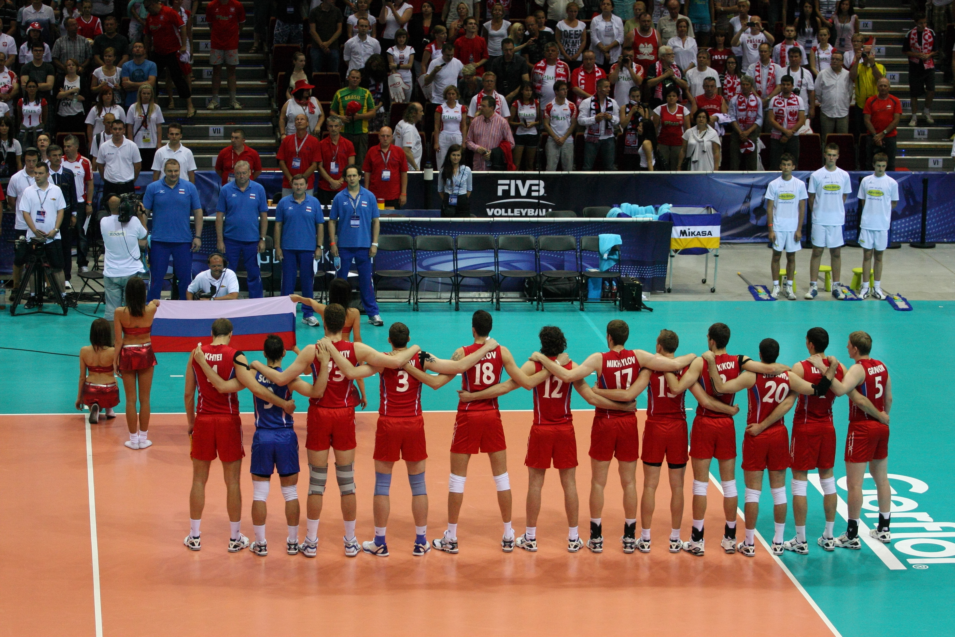 World League Final, Gdańsk 2011 Russia